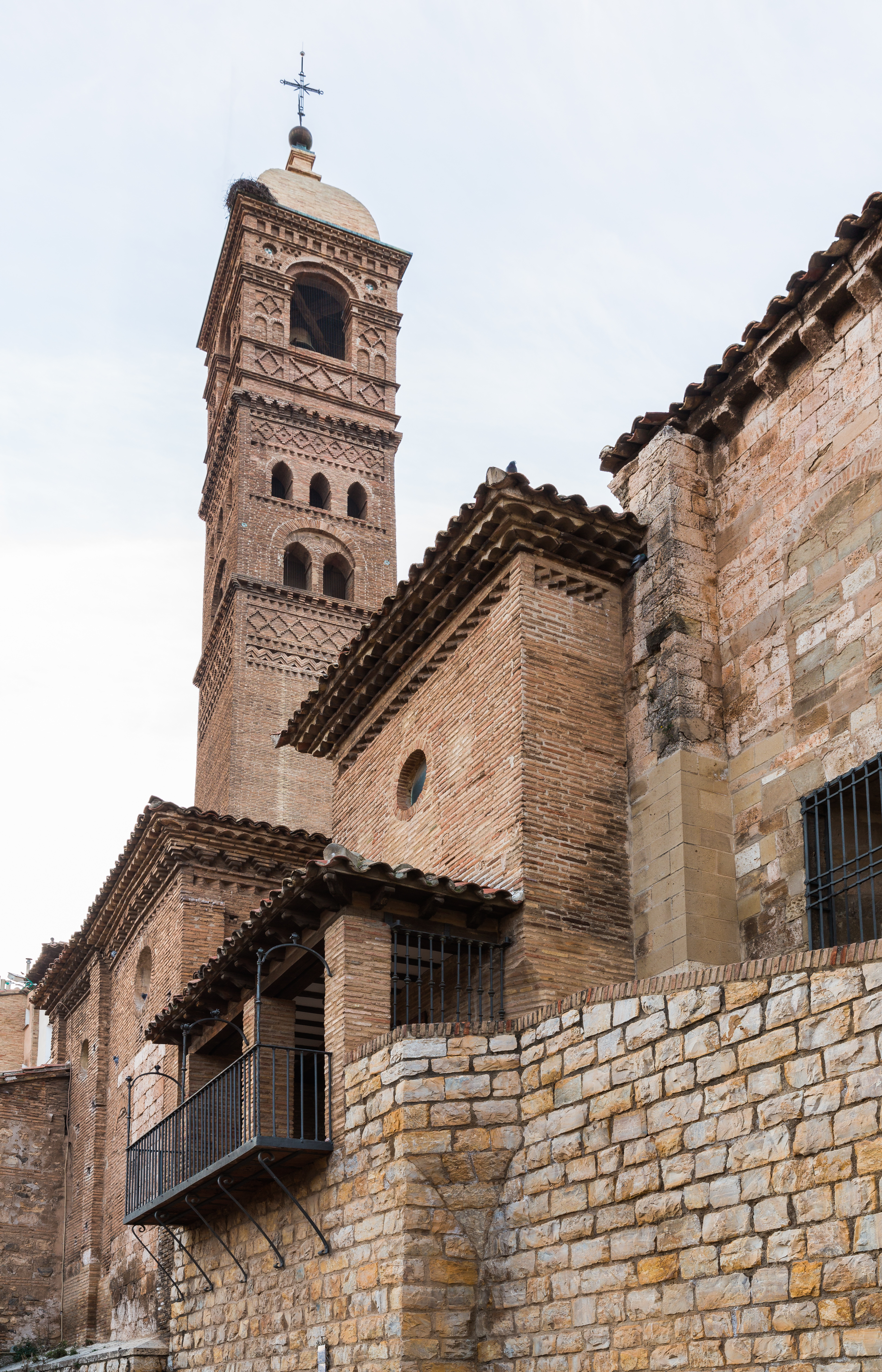 Church of Santa María Magdalena, Tarazona, Spain